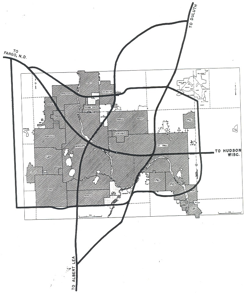 Interstates in today's terms I-35 I-35E I-35W I-94 I-494 I-694